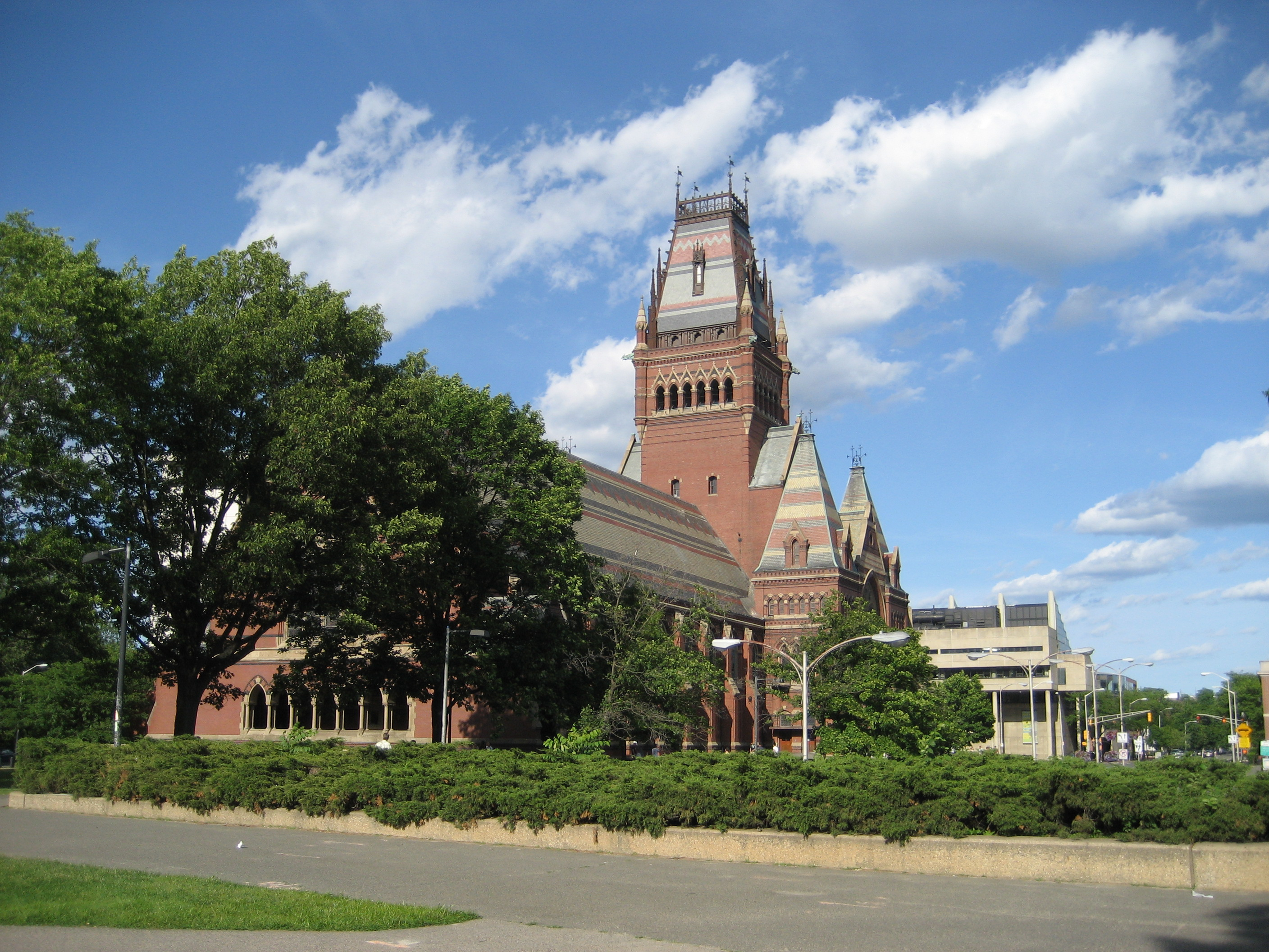 Memorial Hall, Harvard University, Cambridge, Massachusetts